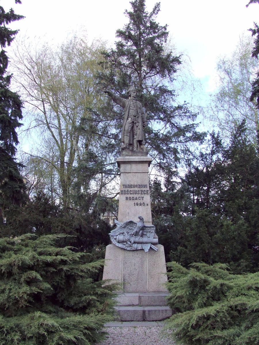 Radzymin, monument of Tadeusz Kościuszko